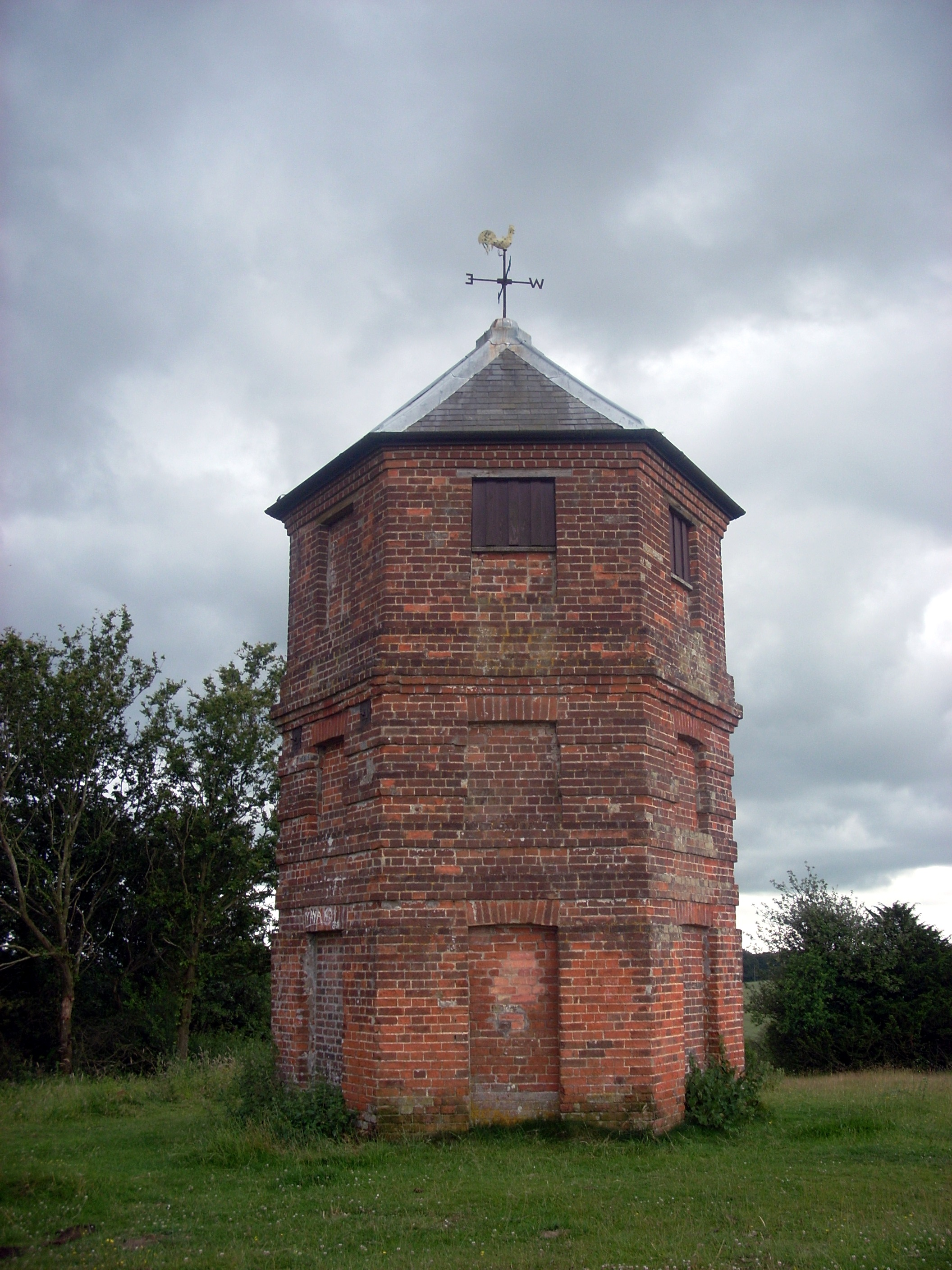 17th century folly, probably built by Giles Eyre of Brickworth House. Whiteparish, Wiltshire, England.